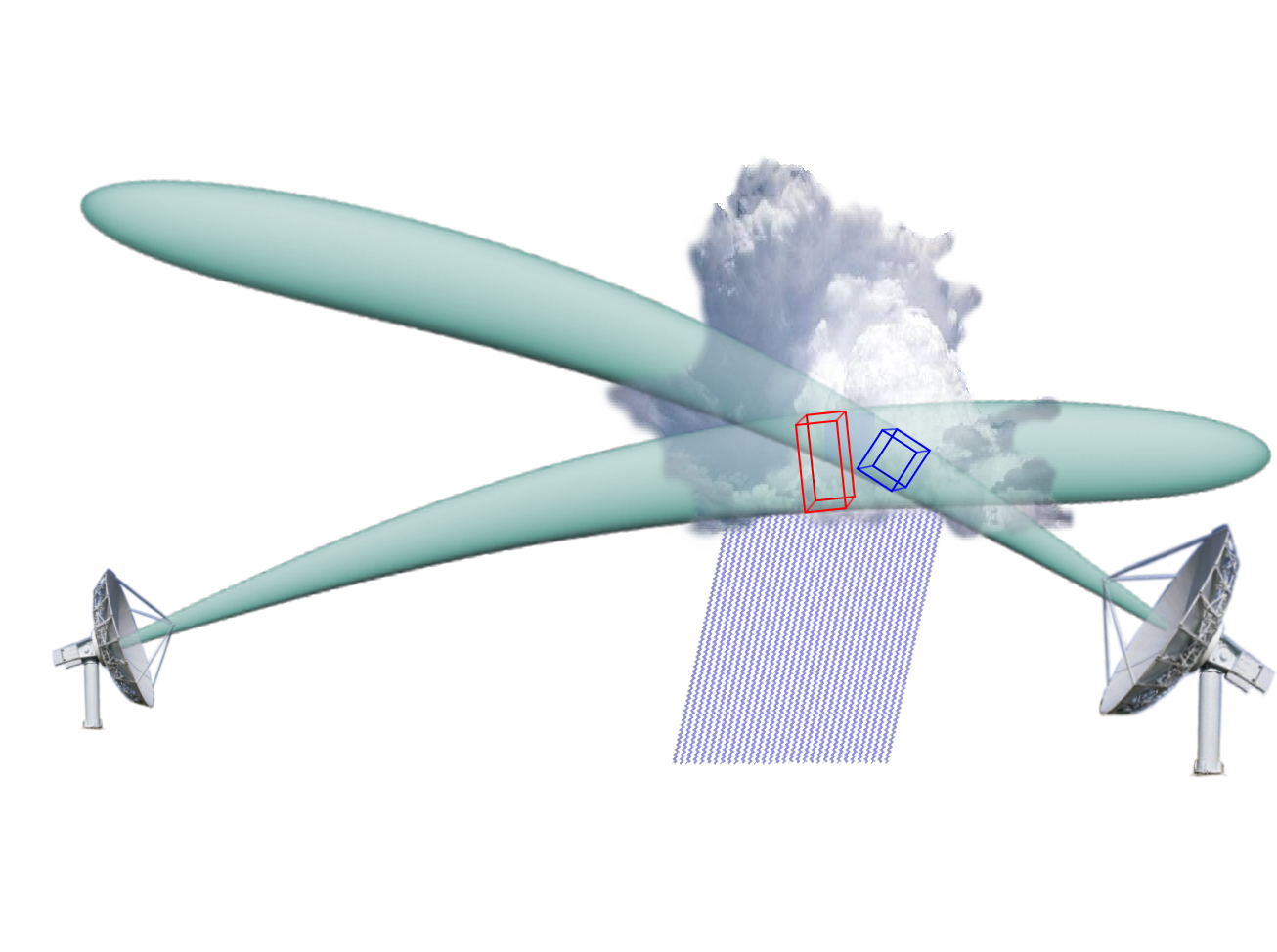 The same thunderstorm looks differently on two different radars. The resolution cell of the radar near the thunderstorm fills out the radar beam. The radar far away sees a wider area including more backscatterers. This one radar will see the cloud more smoothed than the radar nearby.